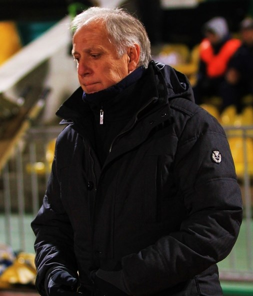 René Girard